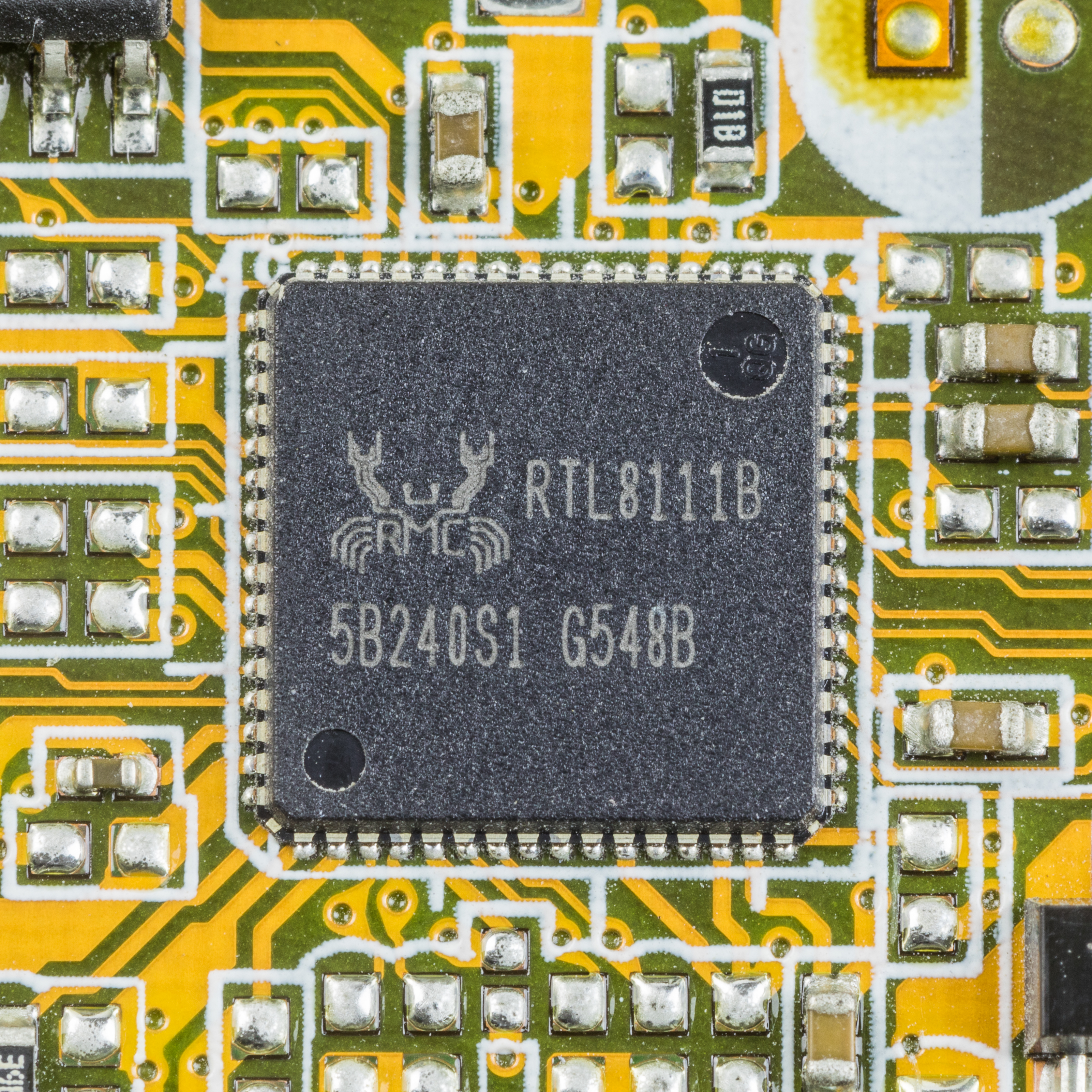 Asus P5PL2 - Realtek RTL8111B - Integrated Gigabit Ethernet Controller for PCI Express Applications